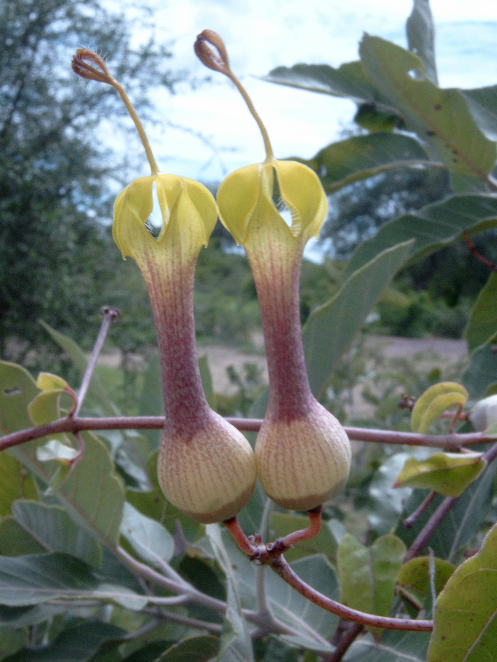 flowers of Ceropegia rhynchantha. between Fada N'Gourma and Bogandé, Burkina Faso.